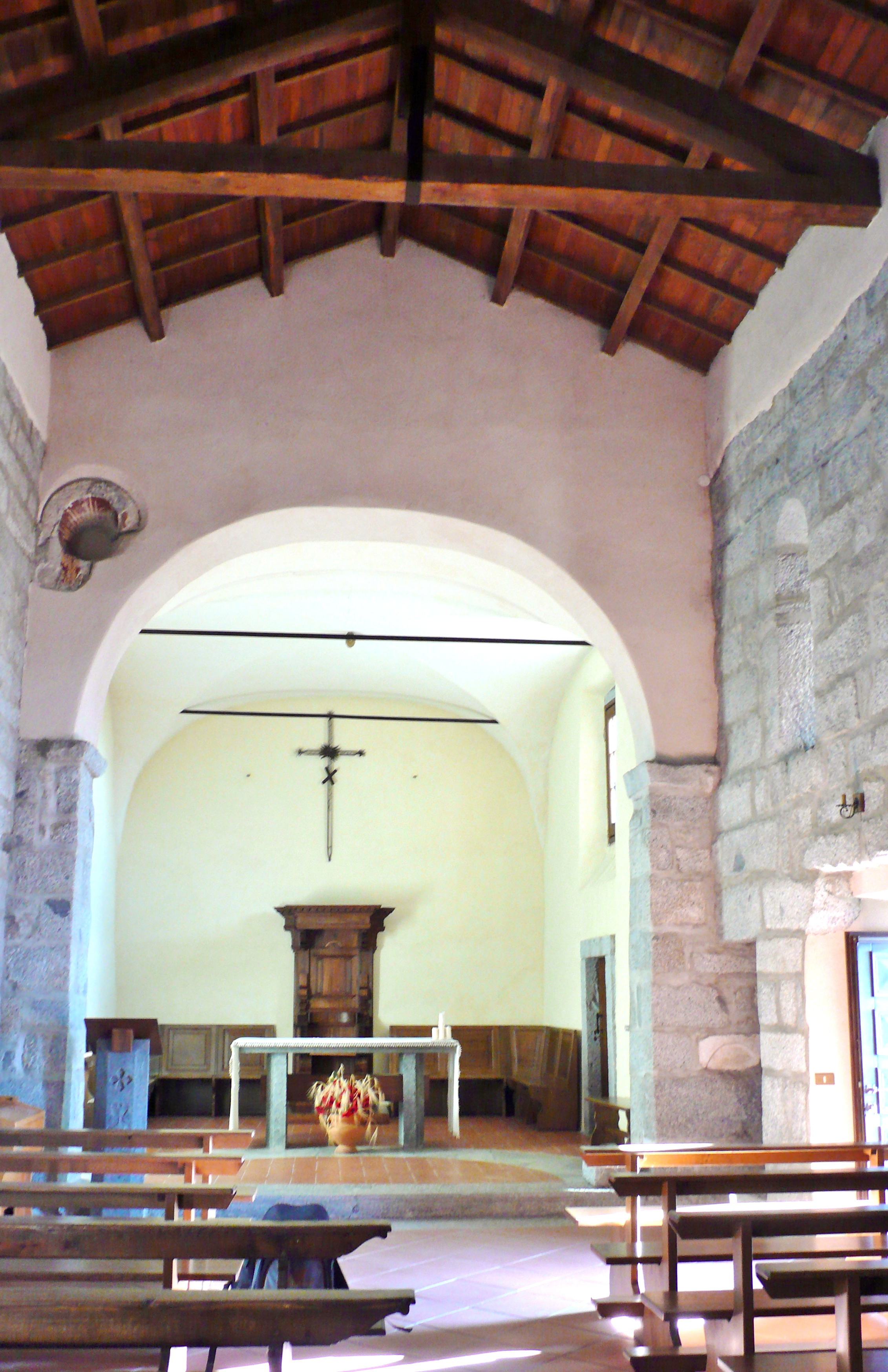 San Sisto Church - Internal